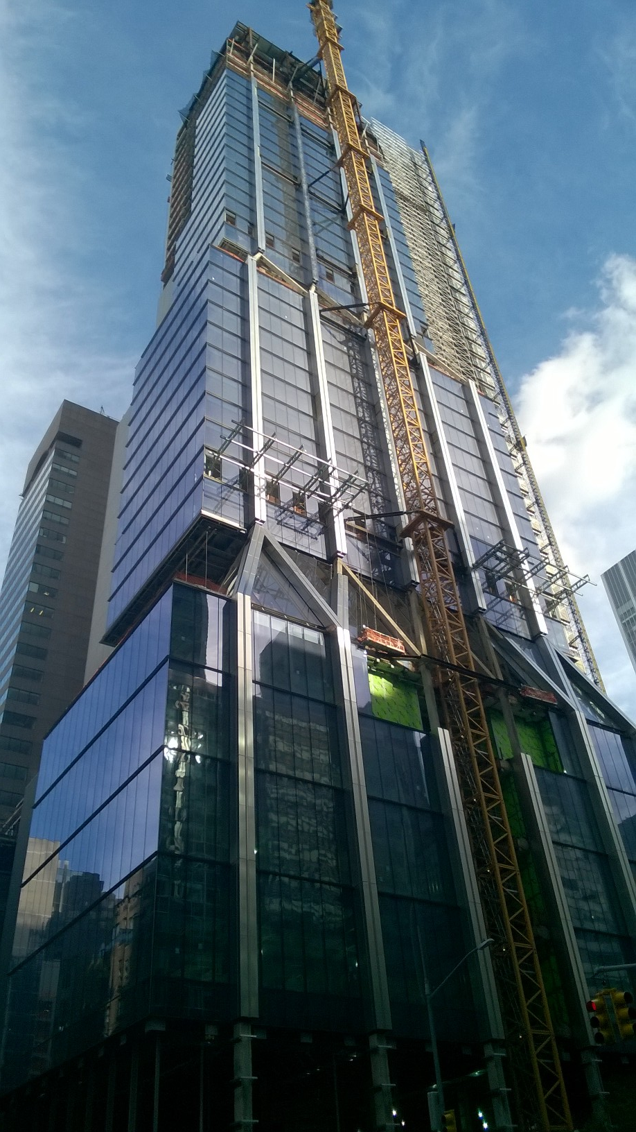 Exterior shot of 425 Park Avenue in New York City.